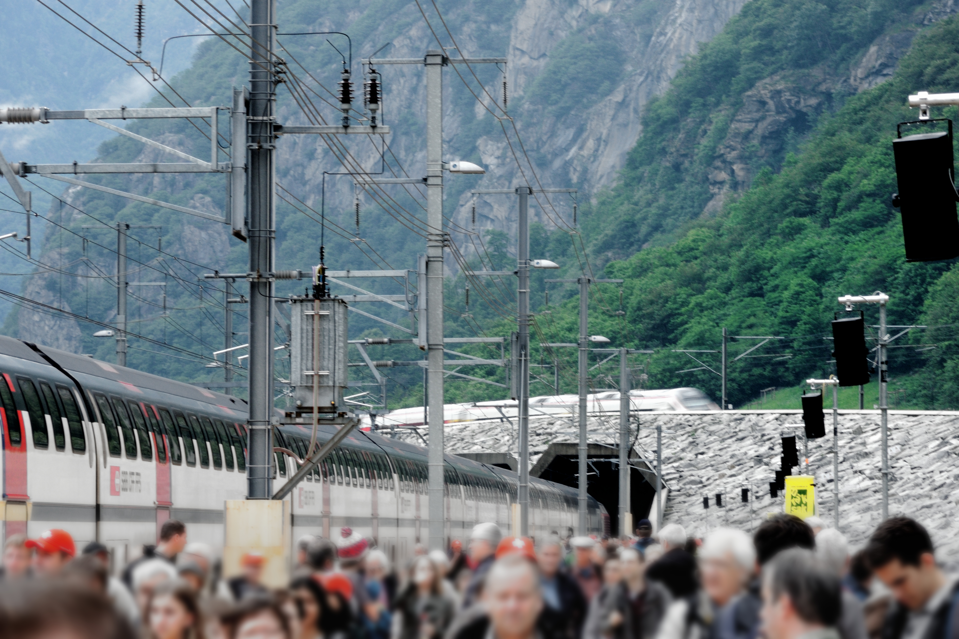 Inauguration days at the Gotthard Base Tunnel, south portal. One of the first passenger trains traversing the tunnel from Erstfeld to Bodio, allowing the public to cross the Alps in 20 minutes for the first time, and to move between the temporary exhibitions held at each end of the tunnel.